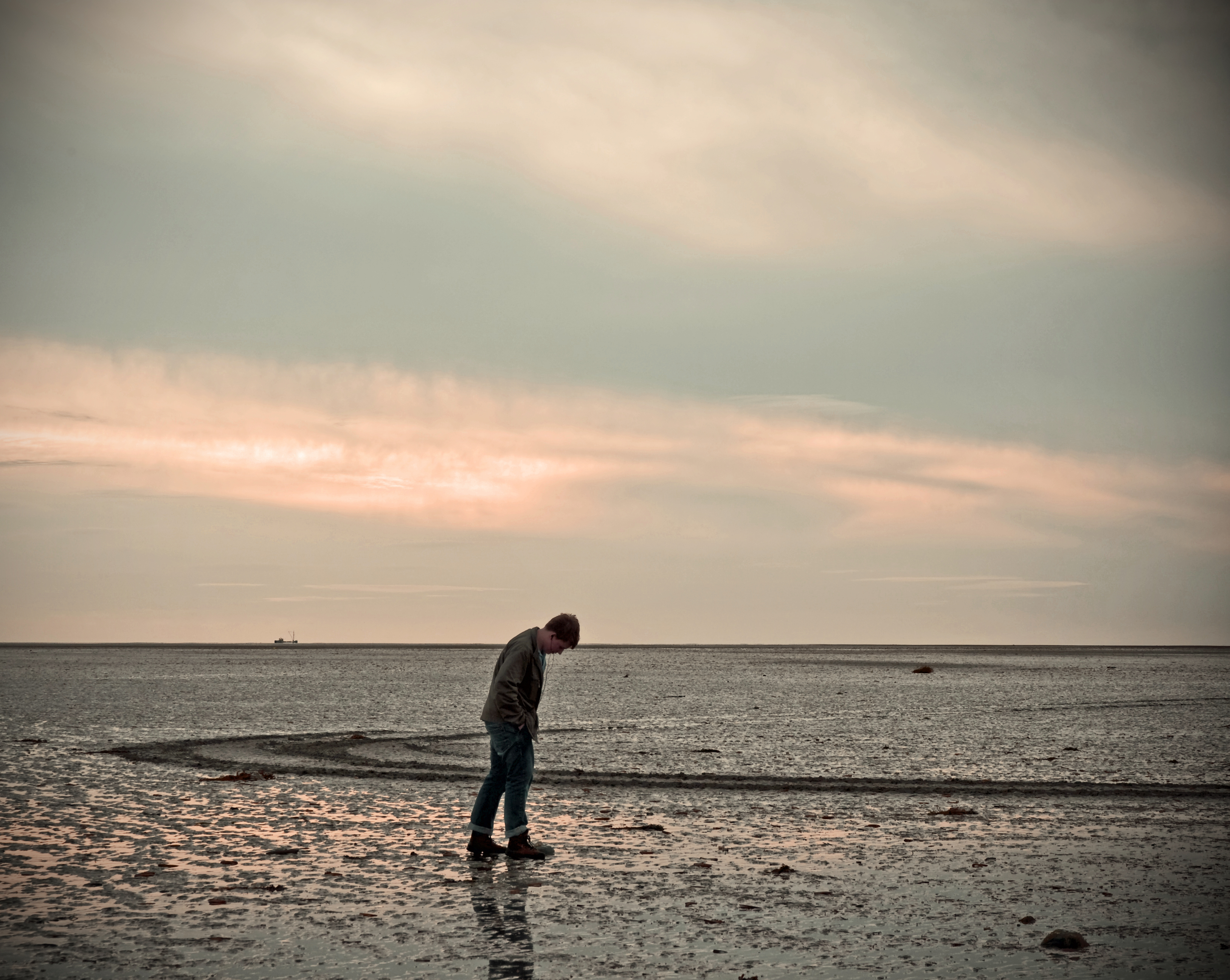 Alone at the very end of Schiermonnikoog island ...